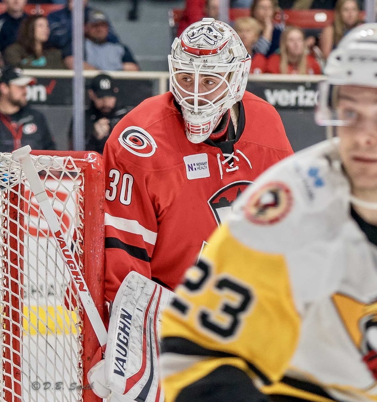 Alex Nedeljkovic, Charlotte goaltender, in first game, first round AHL playoffs 2017-18. WilkesBarre-Scranton Penguins at Charlotte Checkers. Checkers defeated Penguins 3-2 in overtime.